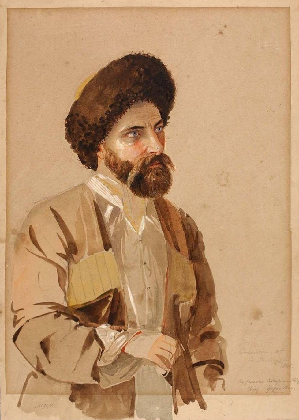 Portrait of Seferbiy Zanoko, Circassian aristocrat, diplomat, and military leader in traditional Circassian costume